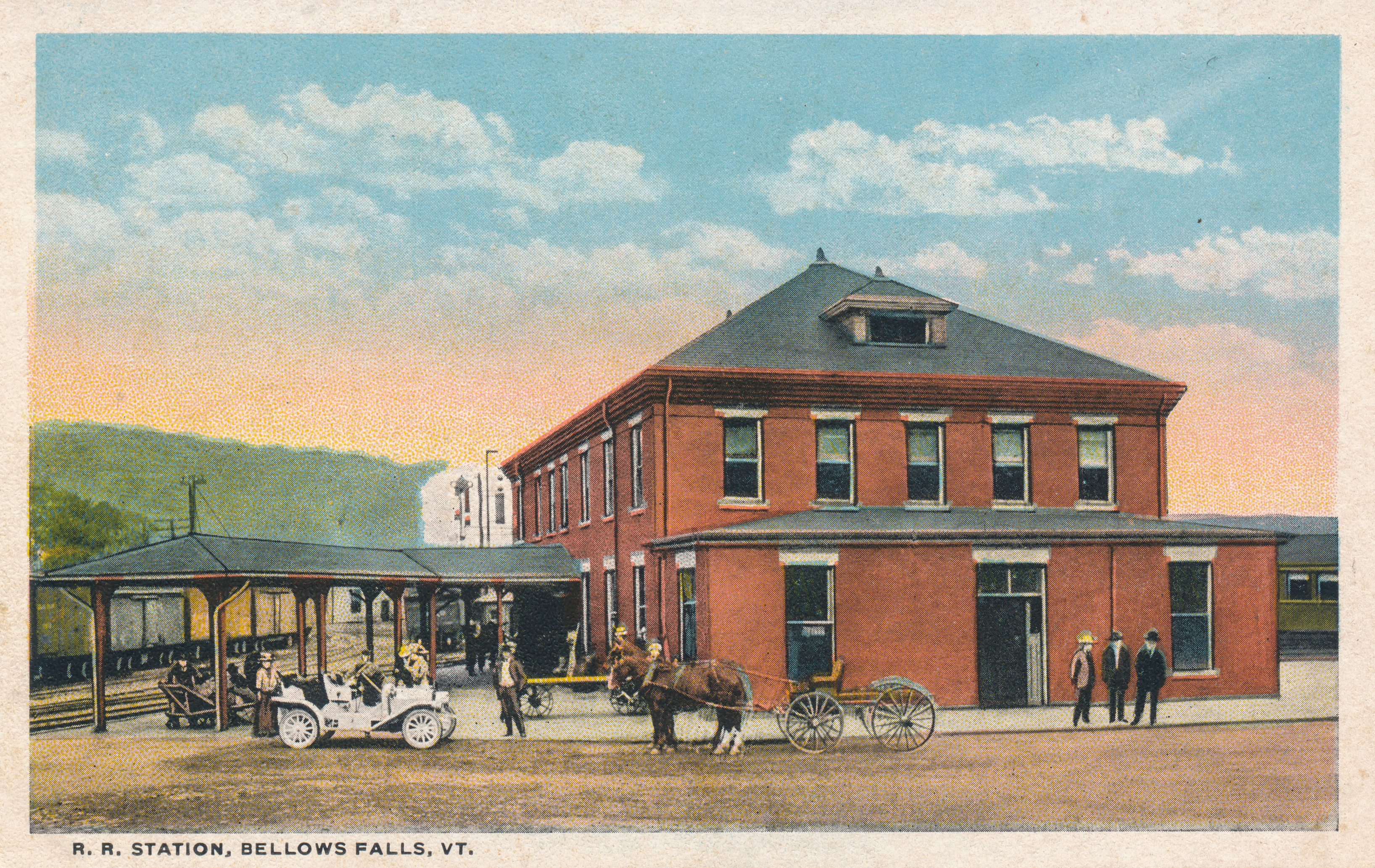 An early image of the railroad station in Bellow Falls, Vermont.